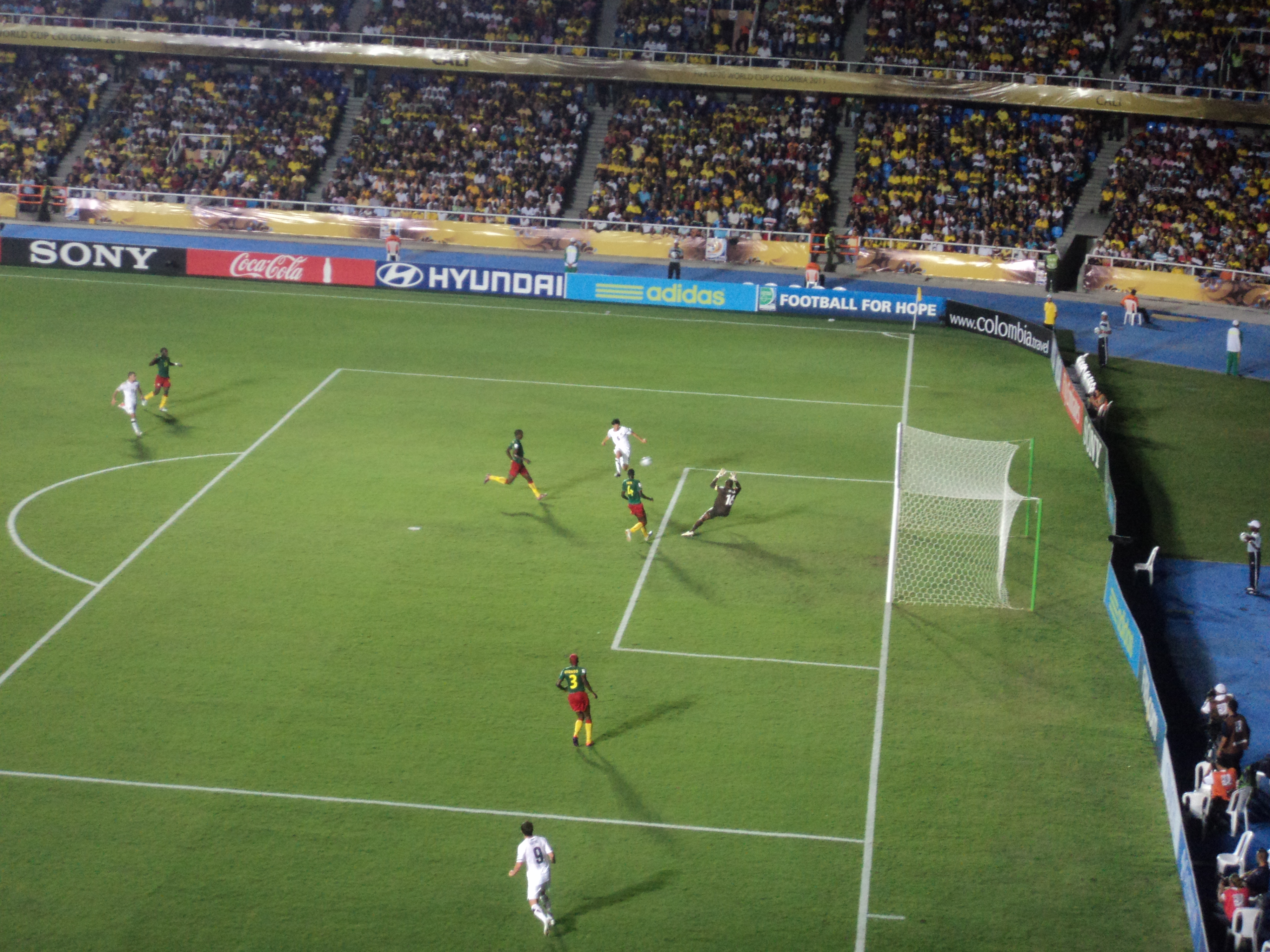 New Zealand striker in a shot on goal - Match Cameroon Vs. New Zealand in U-20 World Cup 2011